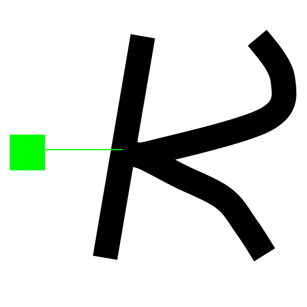 everlapping curve